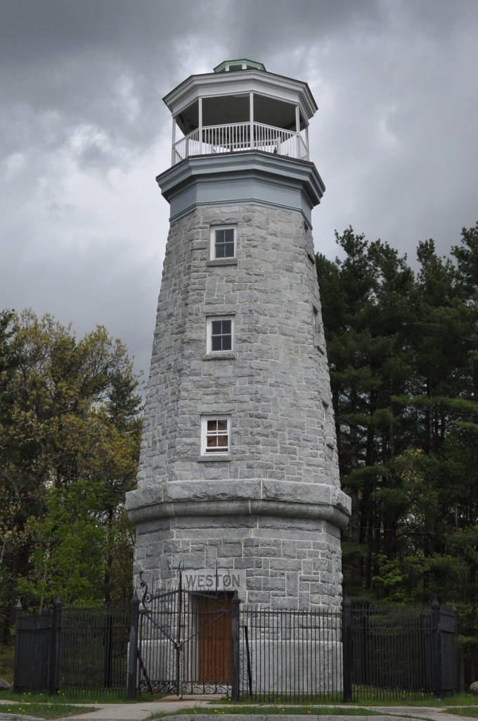 The Weston Observatory in Derryfield Park of Manchester, New Hampshire.